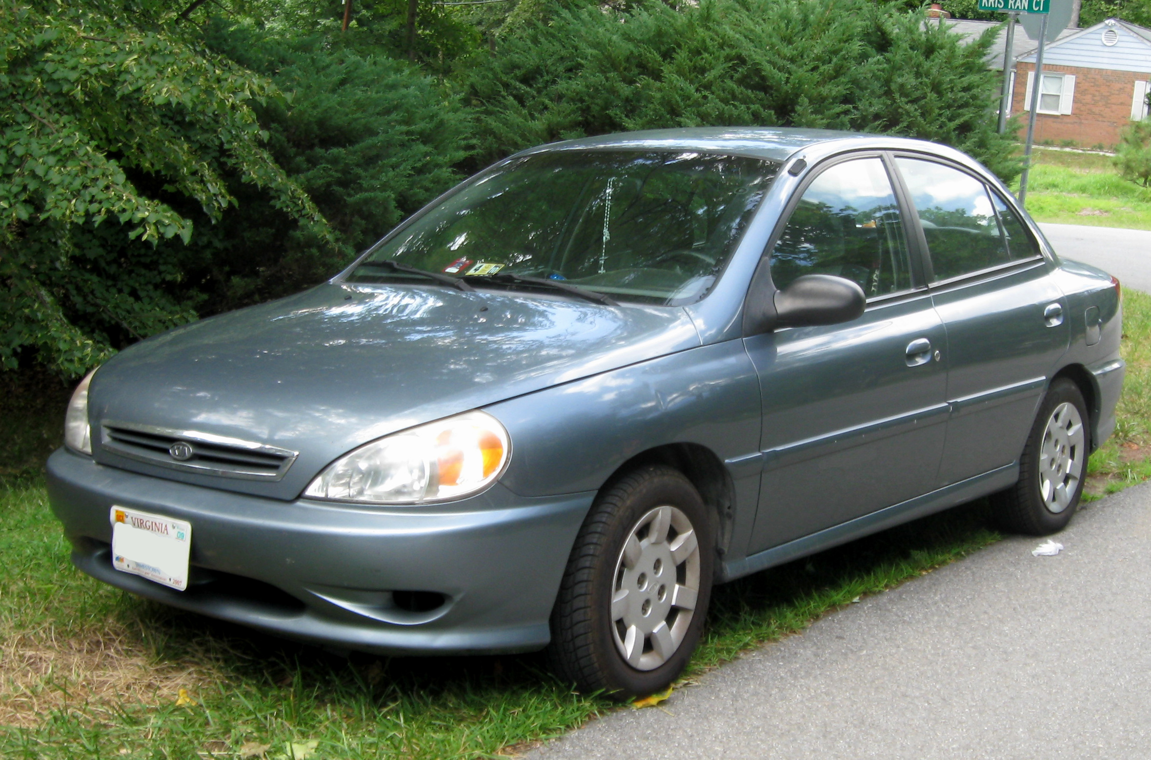 2001-2002 Kia Rio photographed in Fort Washington, Maryland, USA.